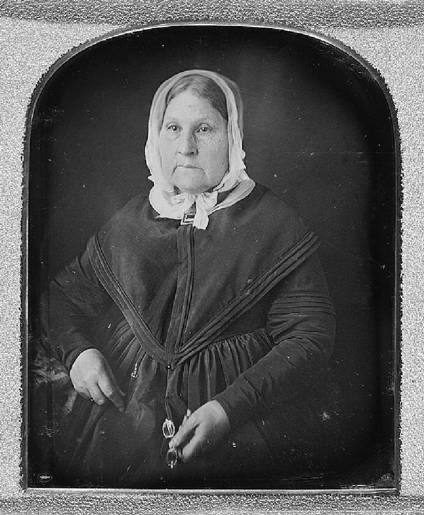 Mary Manuel Lisa, 1782-1869